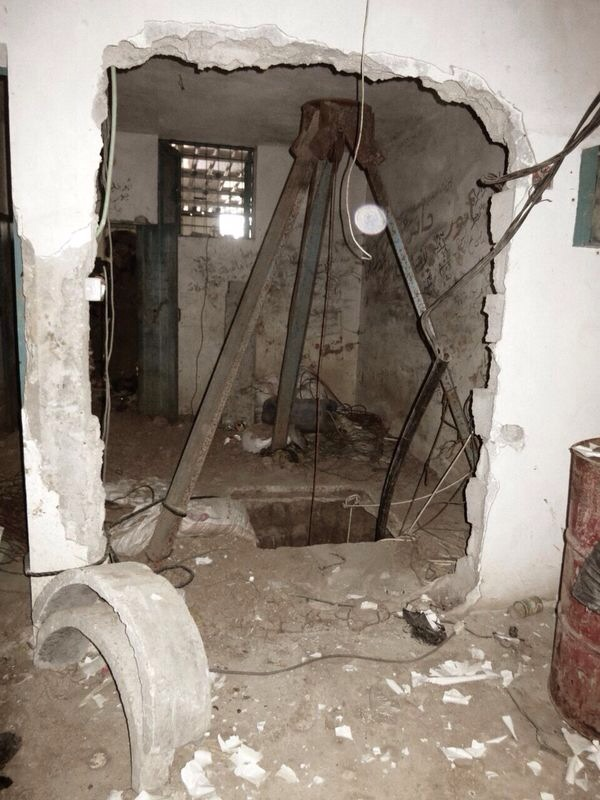 The IDF continues to uncover hidden terror tunnels in the Gaza Strip, used by Hamas to carry out attacks on Israelis. For more updates: The Israel Defense Forces Facebook The Israel Defense Forces blog Follow us on Twitter